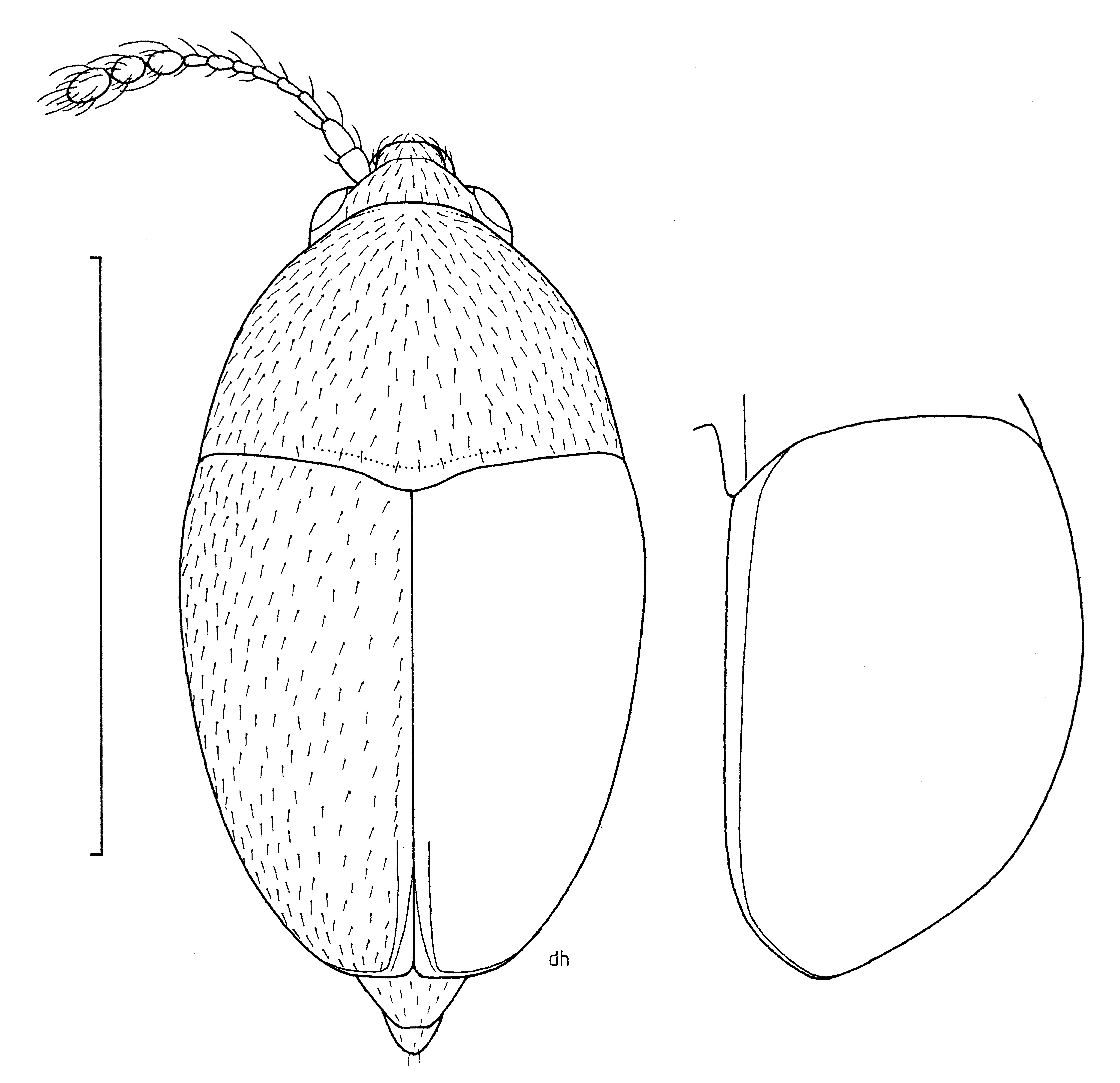 (Coleoptera: Staphylinidae) Baeocera epipleuralis illustrated by Des Helmore.